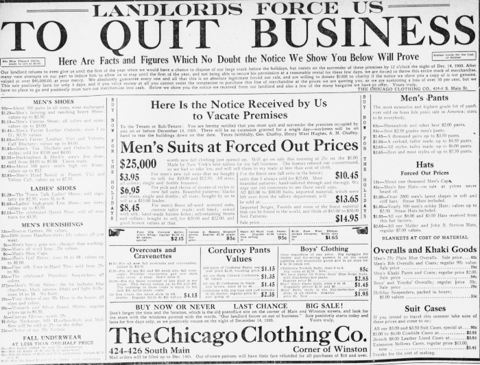 Newspaper advertisement for the Chicago Clothing Co., "Going Out of Business" Sale in Los Angeles, California, December 1909. See Business failure.